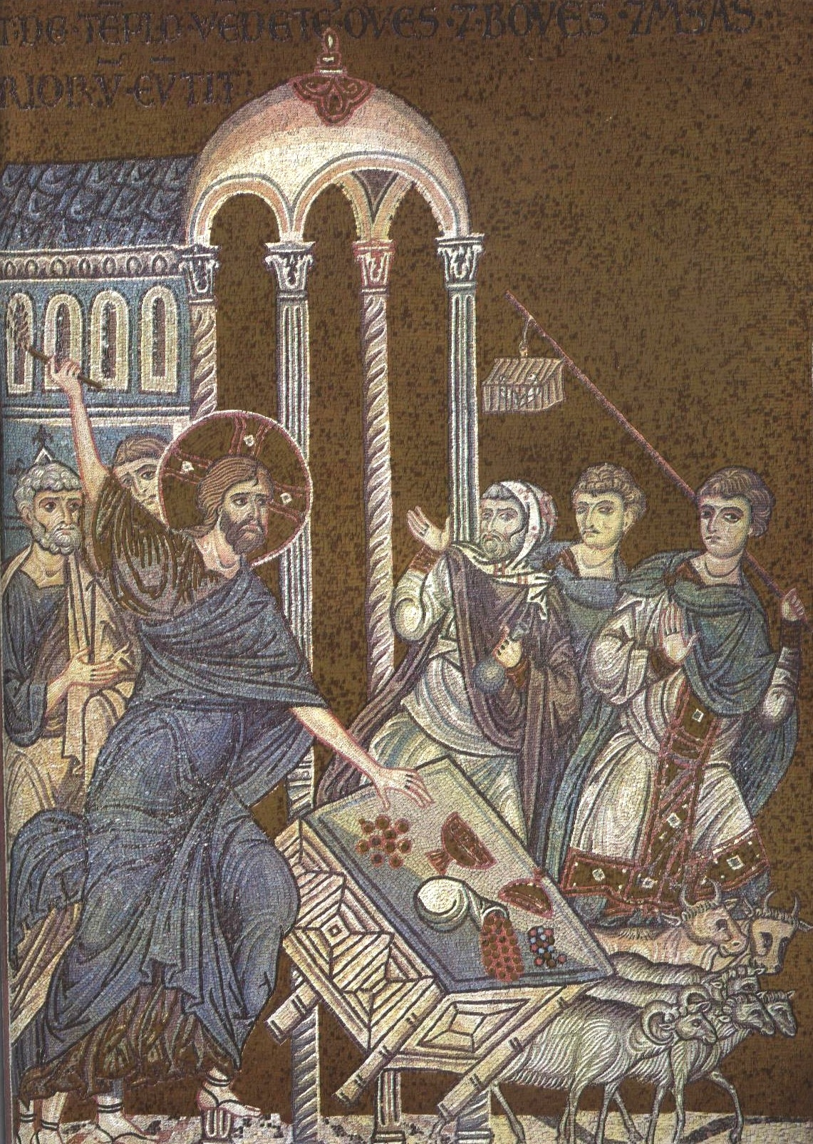 Christ and tradesmen in the Temple-mosaic in Monreale Cathedral